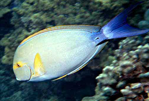 Acanthurus xanthopterus